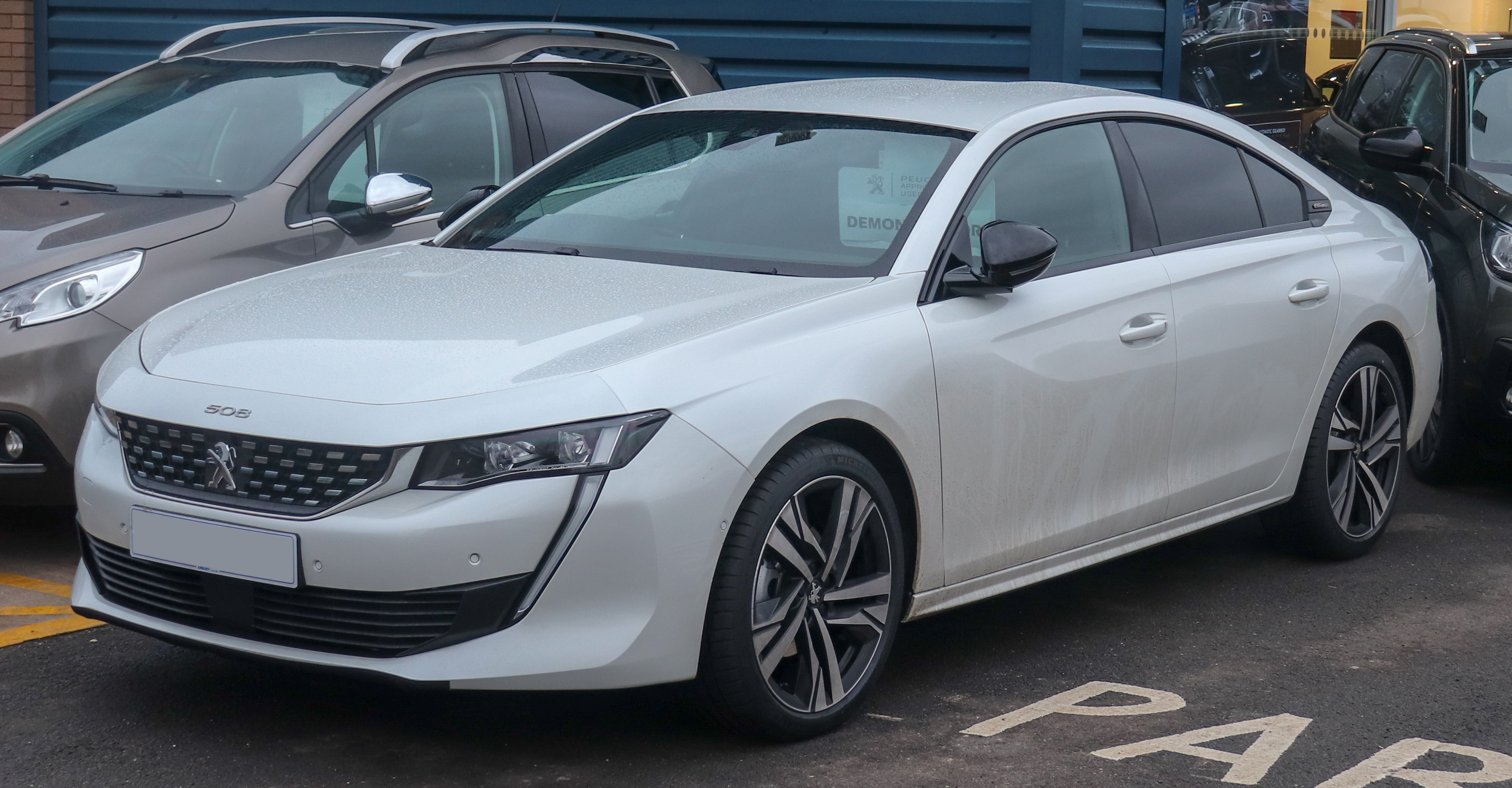 2019 Peugeot 508 GT-Line BlueHDi 1.5 (130 PS) Taken in Leamington Spa